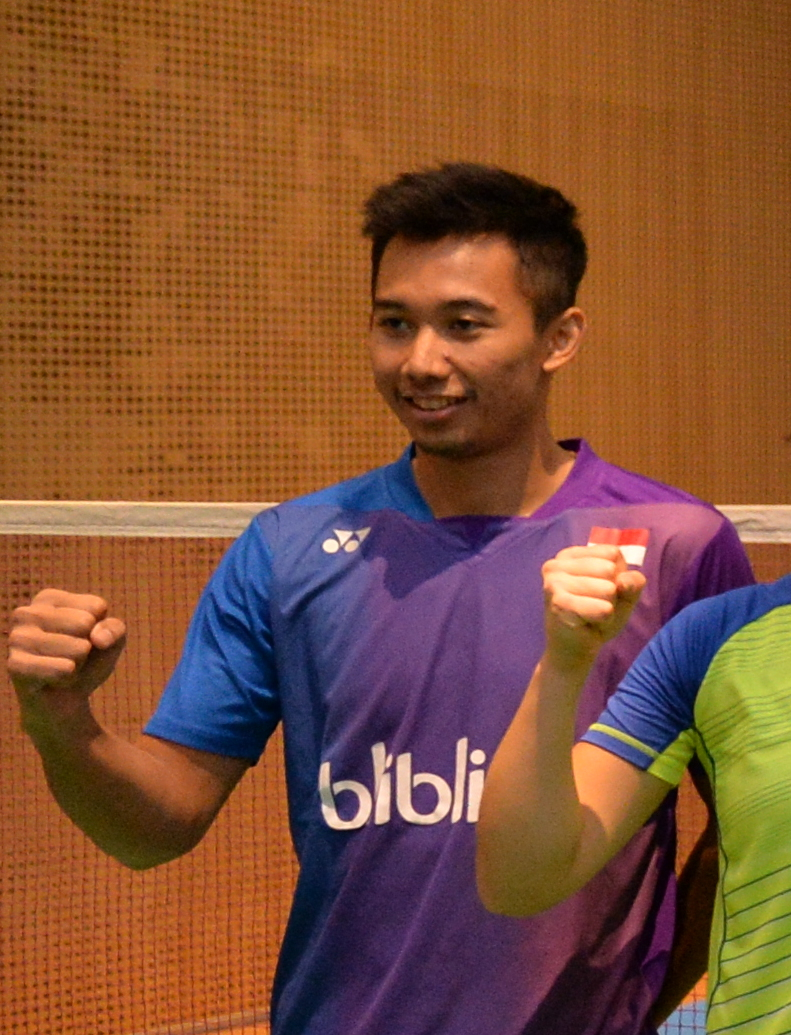 Rian Agung Saputro, Gronya Somerville, Richi Puspita Dili, Sawan Serasinghe, Berry Angriawan, Matthew Chau, Riky Widianto and Setyana Mapasa at the friendly match between Australia and Indonesia at the Australian Embassy Jakarta in 2016